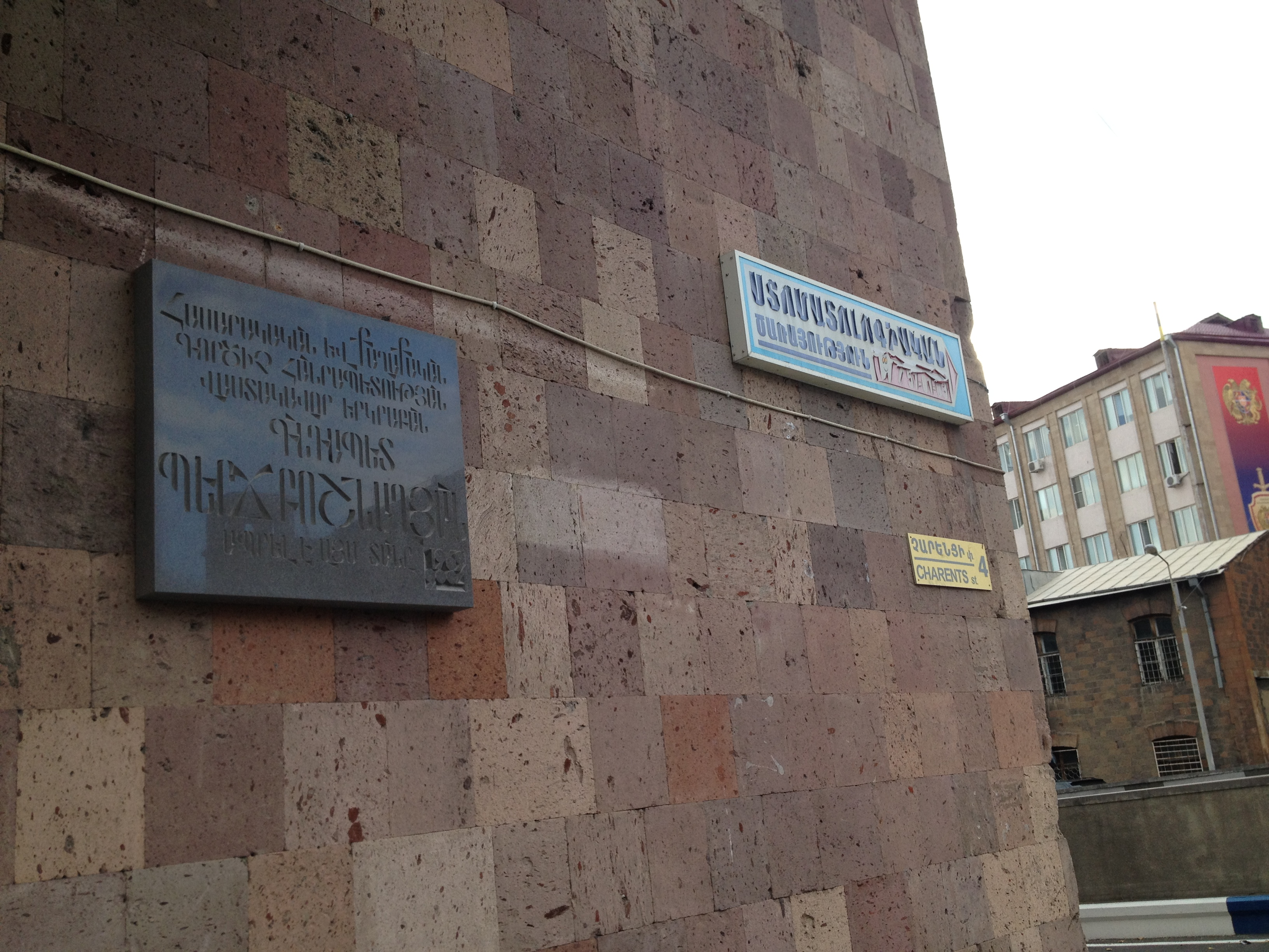 Plaque of Perch Boshnagyan - Charents Street Yerevan.